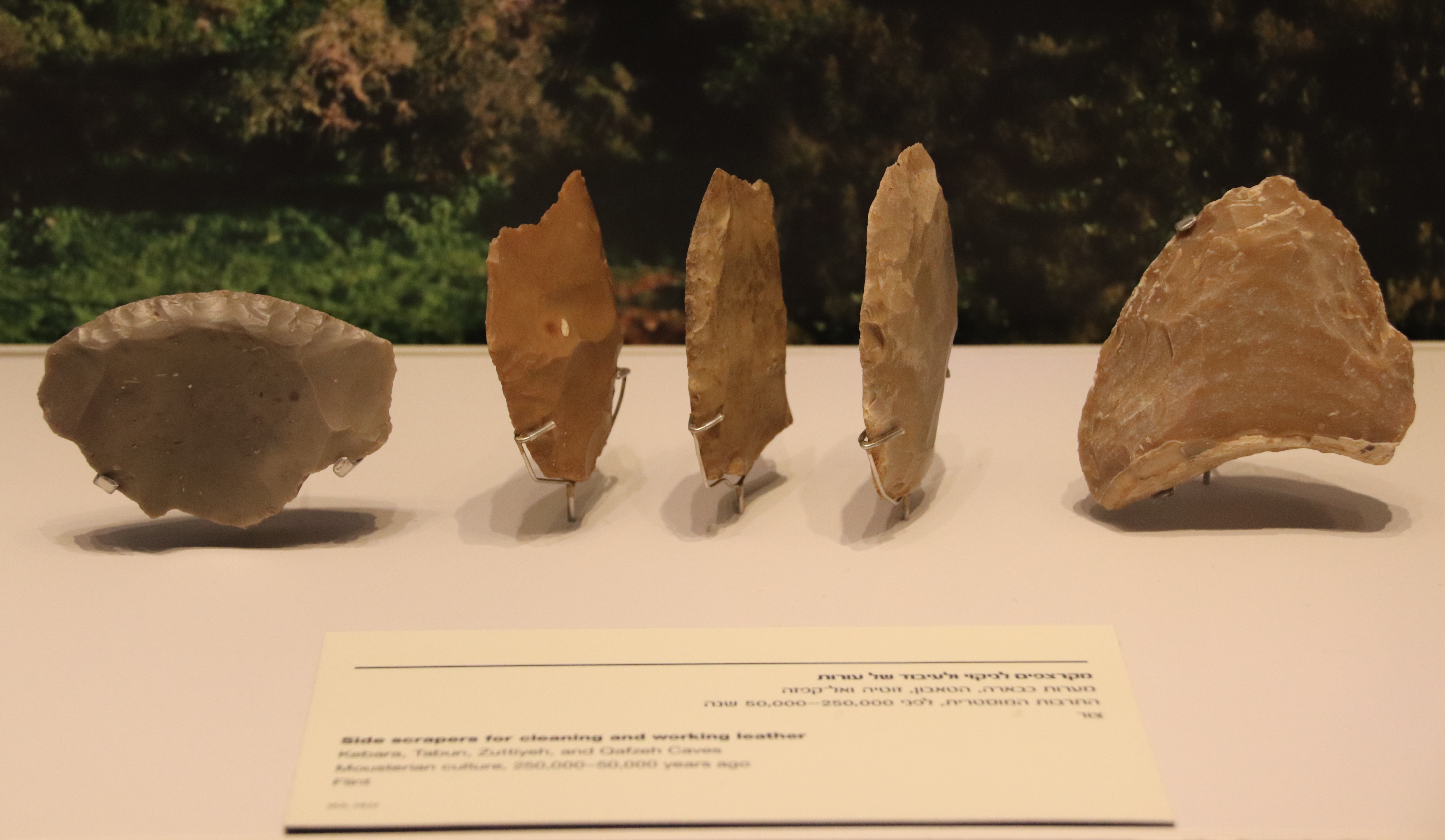 Stone Scrapers for Cleaning & Working Leather, Mousterian Culture, Israel, 250,000-50,000Israel Museum, Jerusalem, Israel. Complete indexed photo collection at .